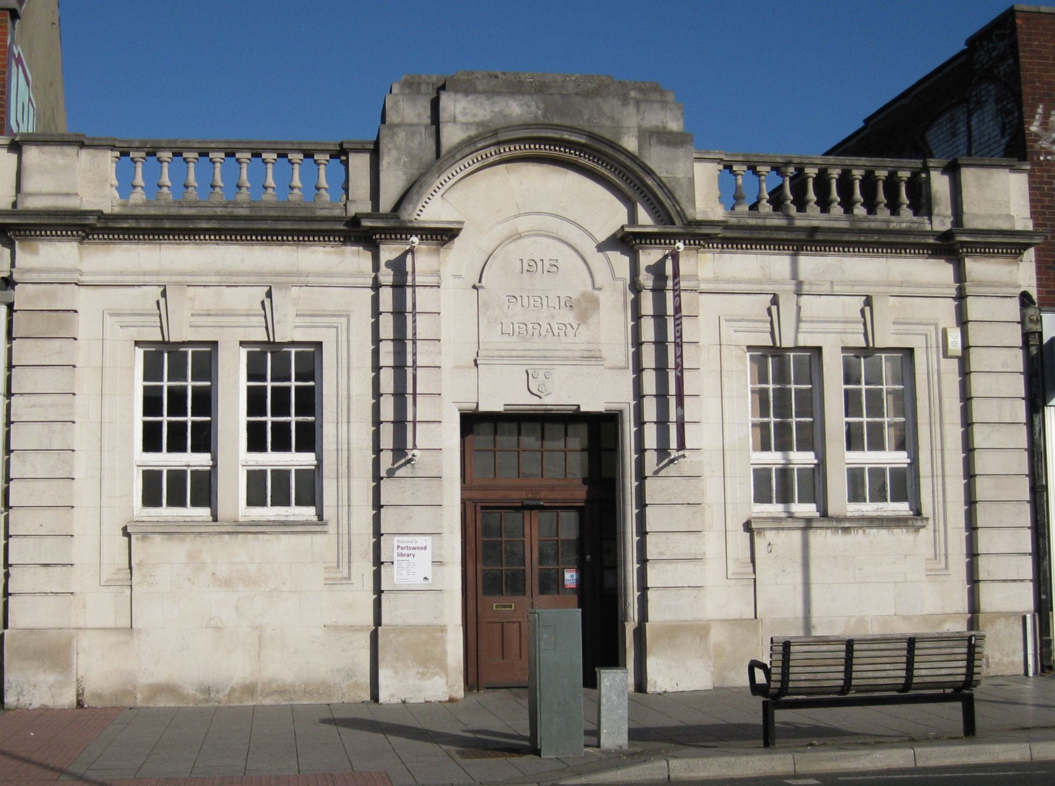 Portswood public library, 251 Portswood Road, Southampton SO17 2NG